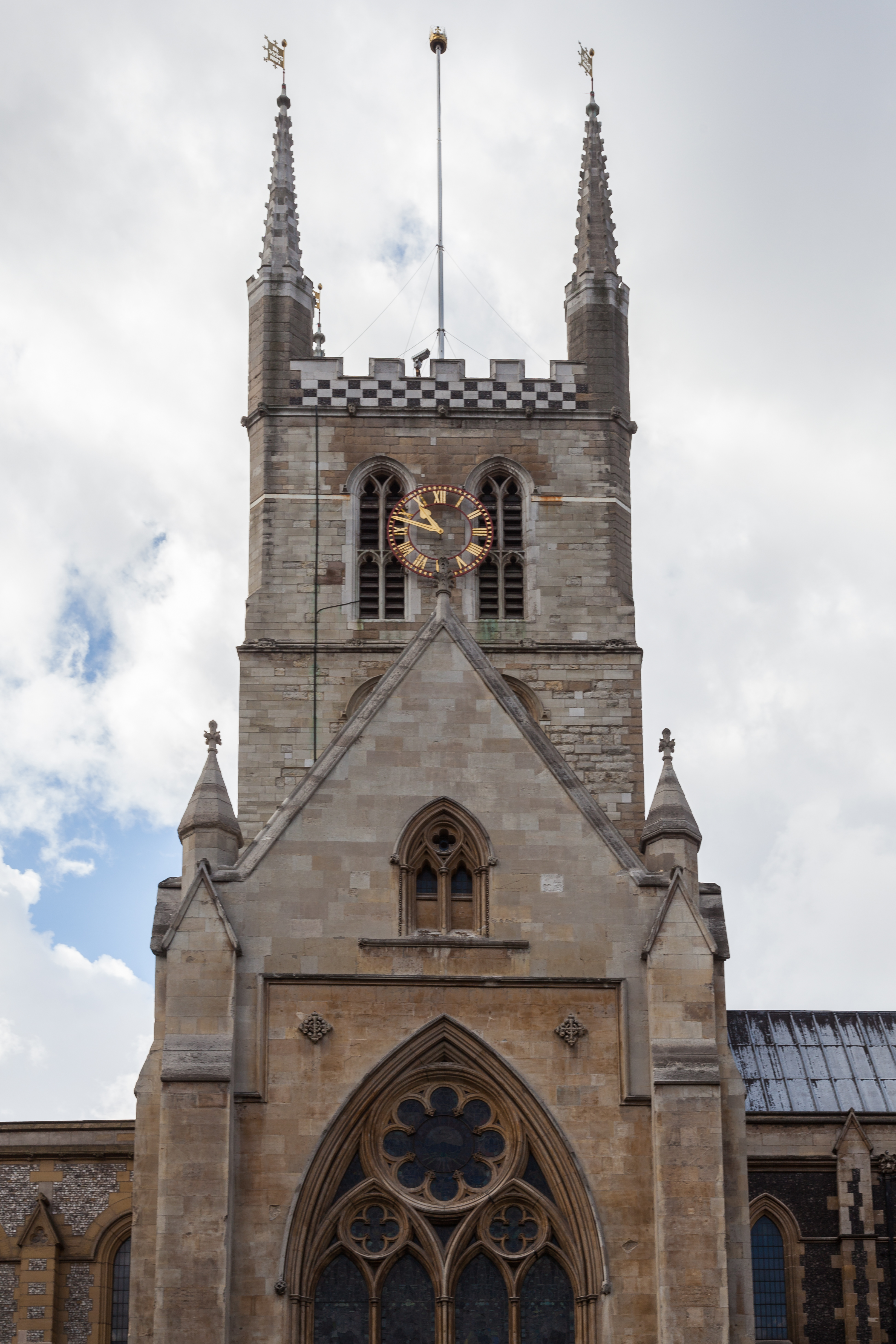 Southwark Cathedral, London, England